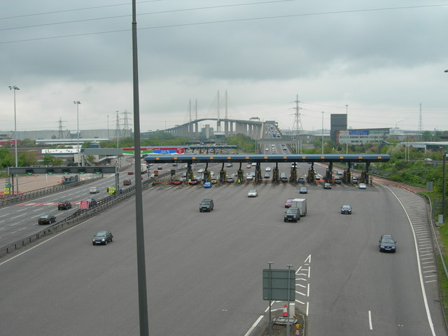 Dartford Crossing Tolls